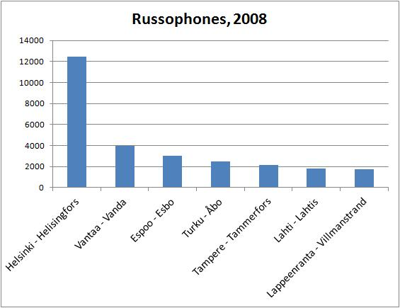 Number of Russian speakers in some Finnish cities in 2008, according to the English language edition of Wikipedia.